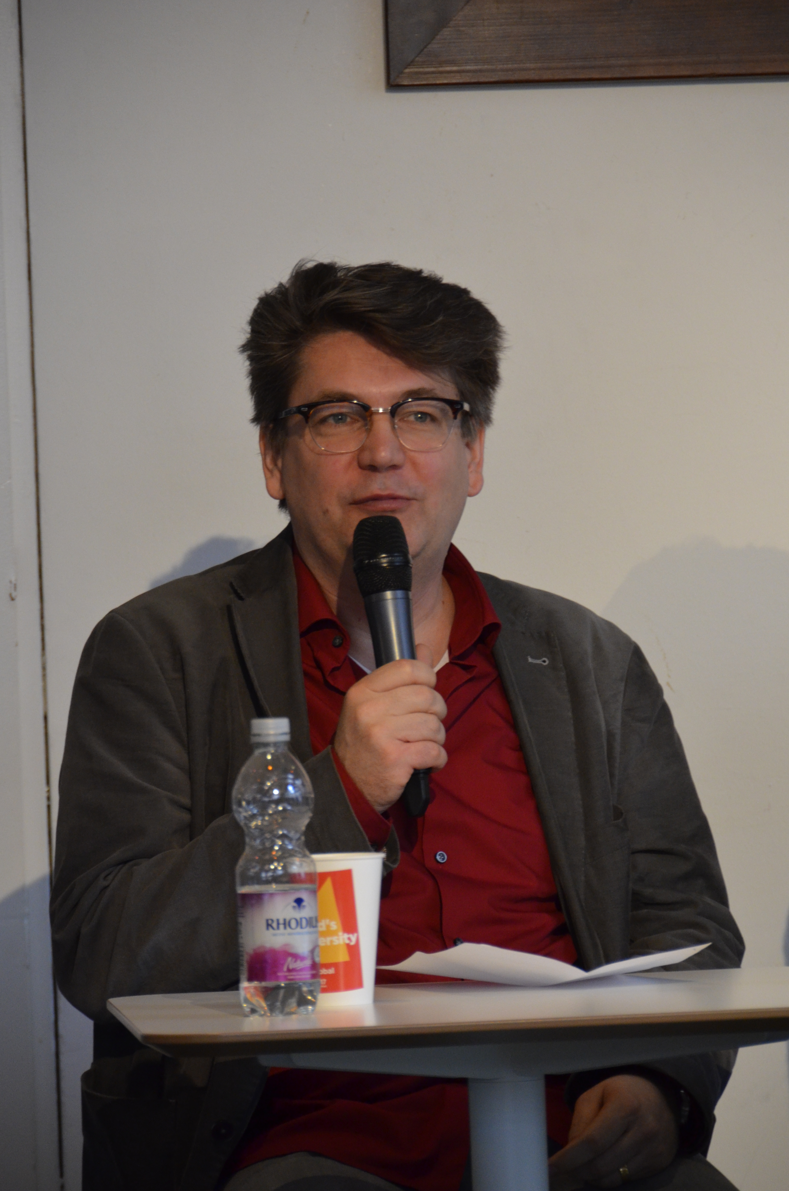 Matthias Pees during the press conference of McDonald’s Radio University.